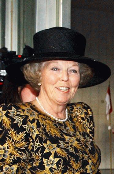 Queen Beatrix of the Netherlands.